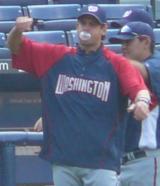 User:Chrisjnelson agreed to license this image of Aaron_Boone.jpg under a free attribution license. Any use of this image must be attributed; this means that Photo by :en:User:Chrisjnelson|Chris Nelson should be in the picture caption. 22:01, 23 April 2008 . . Chrisjnelson . . 229×266 (81 KB)